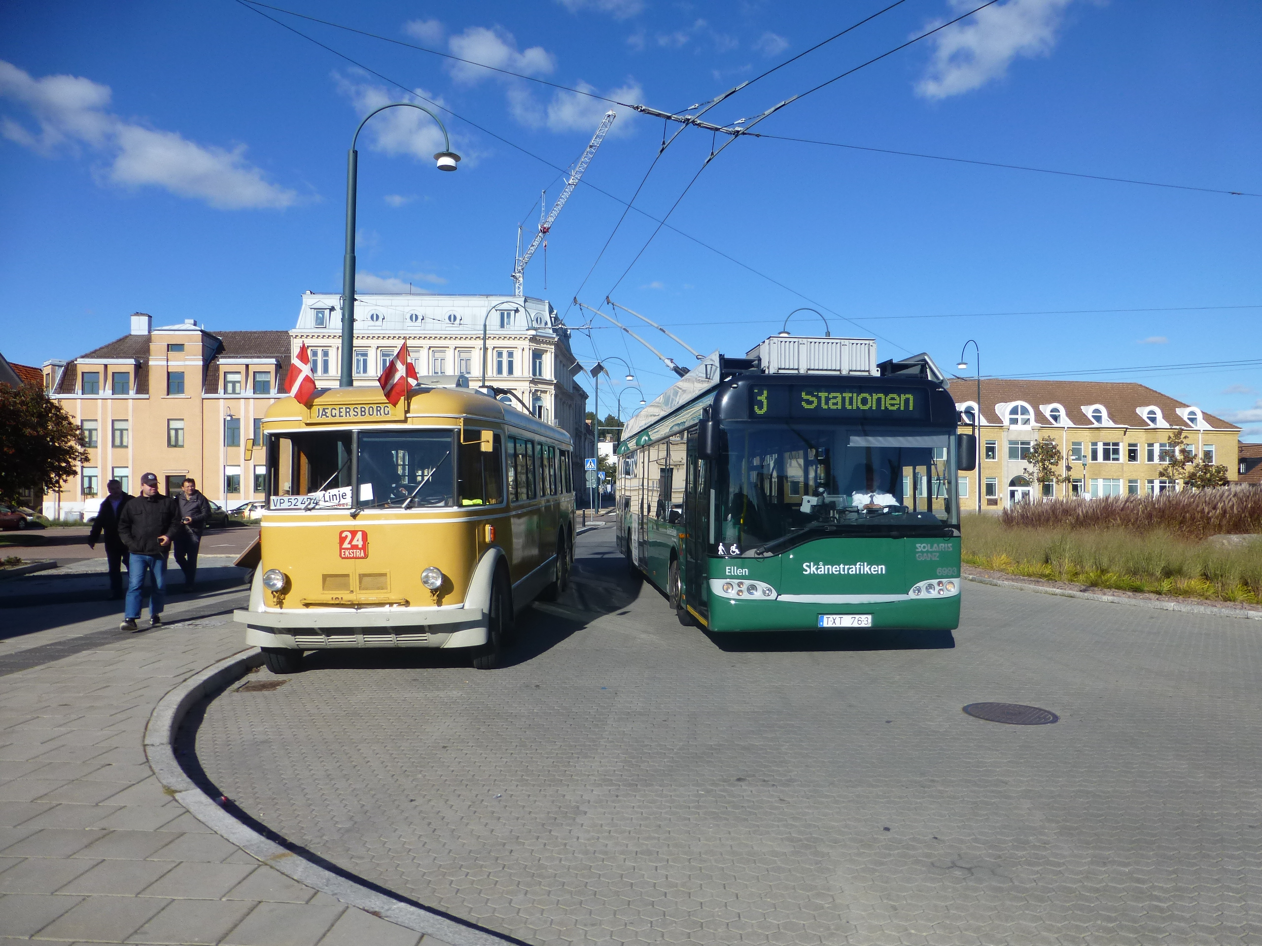 Old trolleybus from Copenhagen KS 101 and new trolleybus 6993 "Ellen" at Skeppsbron in Landskrona.